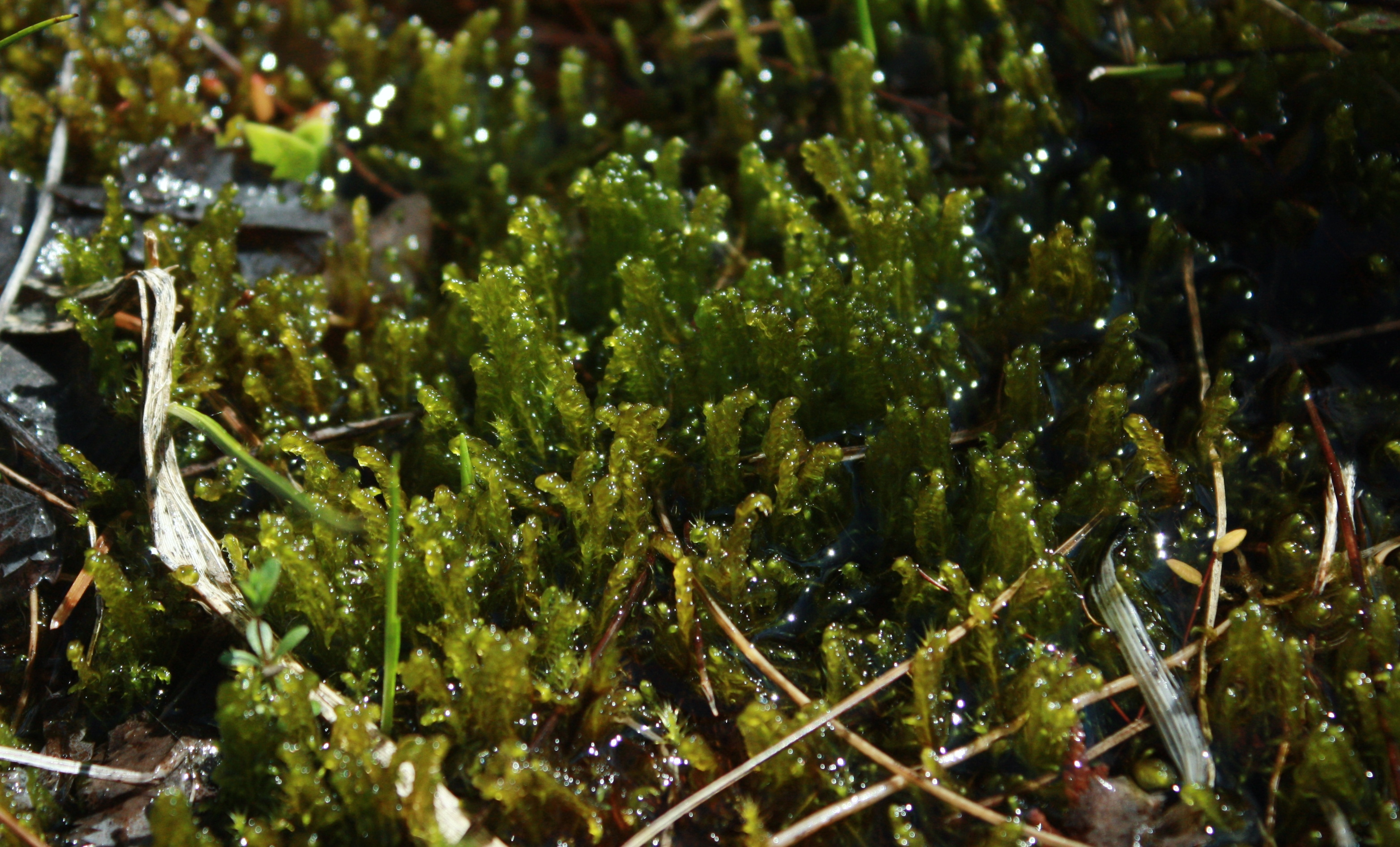 A Scorpidium scorpioides layer. This layer grows along with Trichophorum cespitosum in an open spot where water slowly flows only a few centimeters above ground surface. Photograph taken in a fen in Saint-Fabien, Bas-Saint-Laurent, Québec.